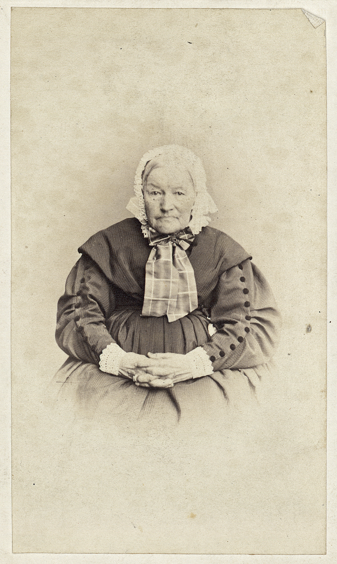 Tittel / Title: Portrett av Hanna Winsnes (1789-1872) Motiv / Motif: Visittkort. Dato / Date: ukjent / unknown Fotograf / Photographer: ukjent / unknown Eier / Owner Institution: Nasjonalbiblioteket / National Library of Norway Lenke / Link: Bildesignatur / Image Number: blds_01807